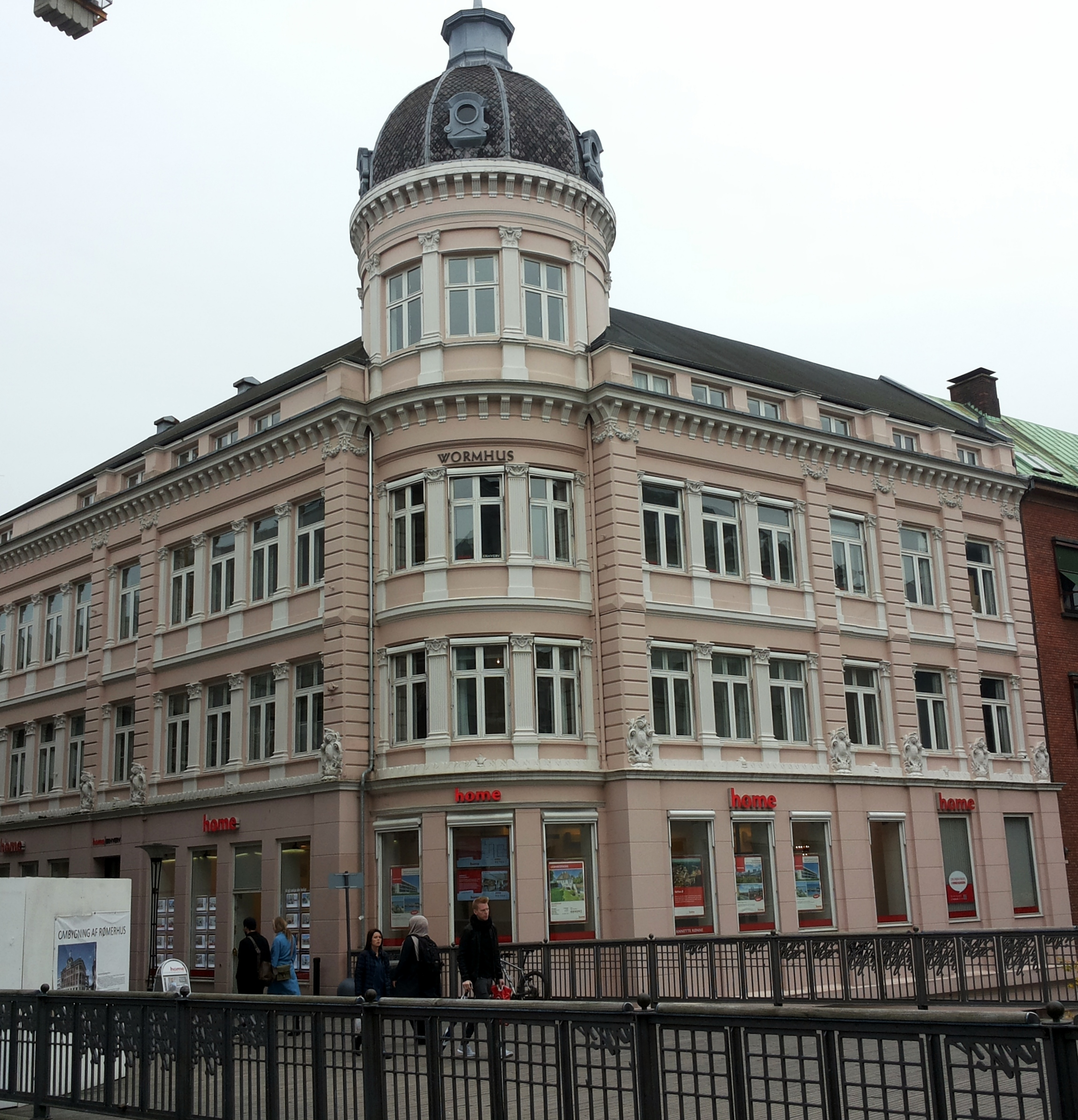 Wormhus